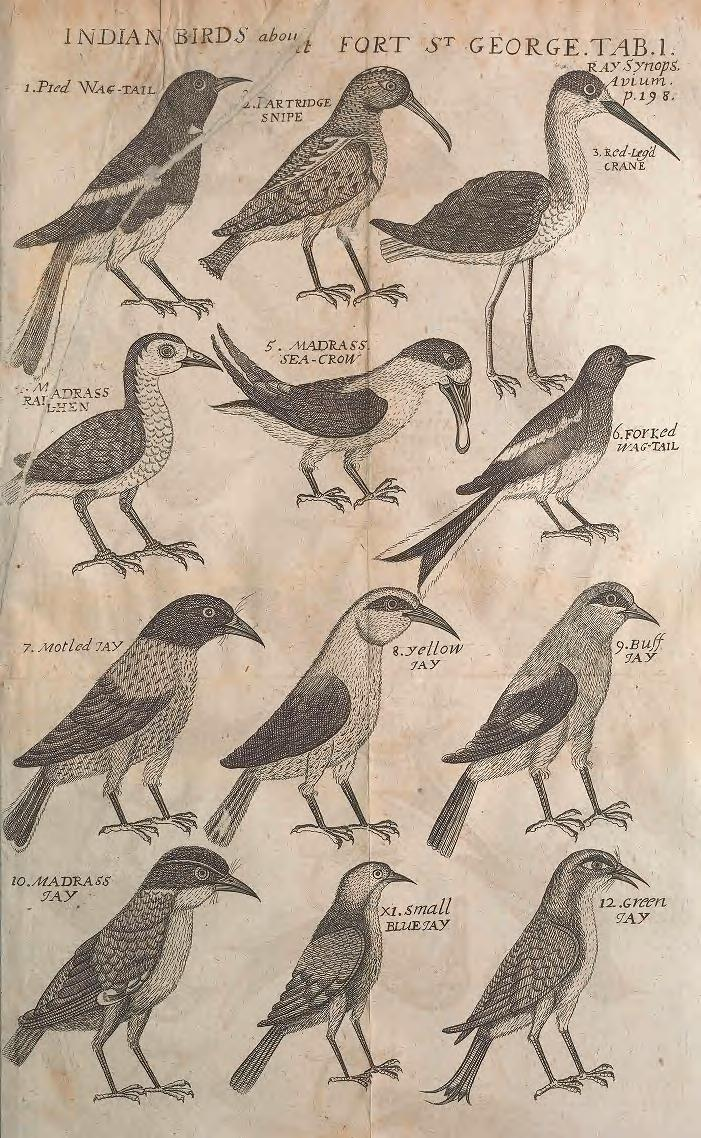 John Ray's Page with illustrations of the birds of Madras or Fort St. George based on the birds noted by Edward Buckley and communicated to Jacob Petiver. Joannis Raii Synopsis methodica avium & piscium : opus posthumum. The original picture (BL ADD MS 5266, ff.91-2) was made by native Indian artists (colour version in British Library) The painting in the British Library is flipped left to right compared to the book illustration. It is reproduced as Figure 2.1 in: Winterbottom, Anna (2015). "Medicine and botany in the making of Madras, 1680–1720". In Damodaran, V.; Winterbottom, A.; Lester, A. The East India Company and the Natural World. Basingstoke, UK: Palgrave Macmillan. pp. 35–57. ISBN 978-1-137-42726-7.